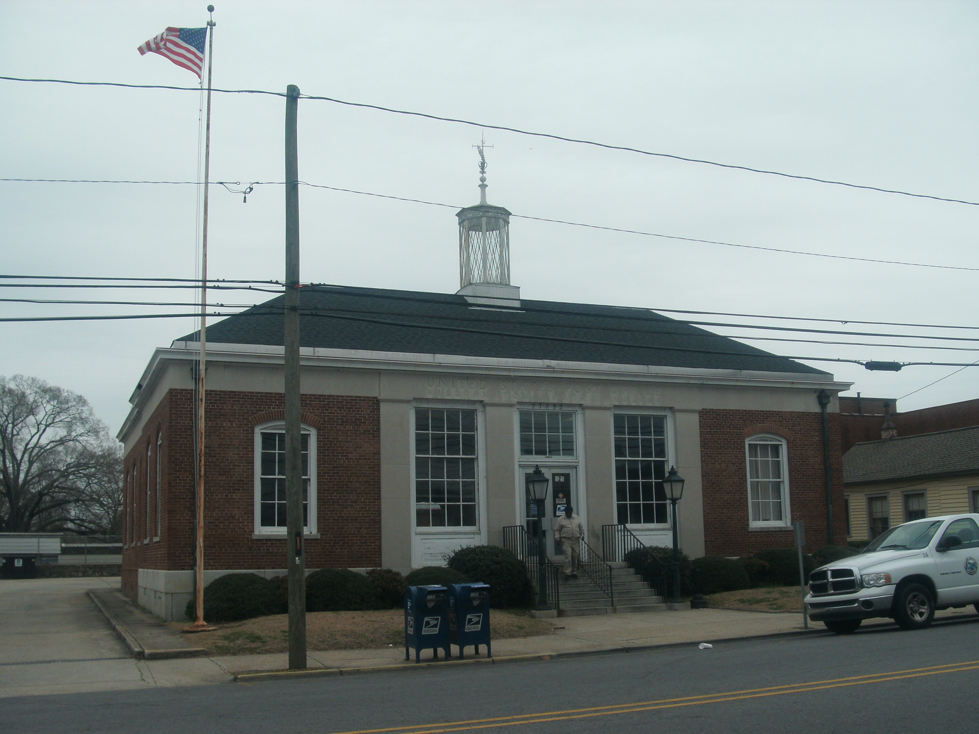 Williamston, North Carolina, March, 2015 GEDSC DIGITAL CAMERA